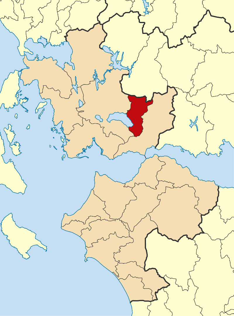 Locator map for Thermo municipality in Greek region Western Greece (2011)